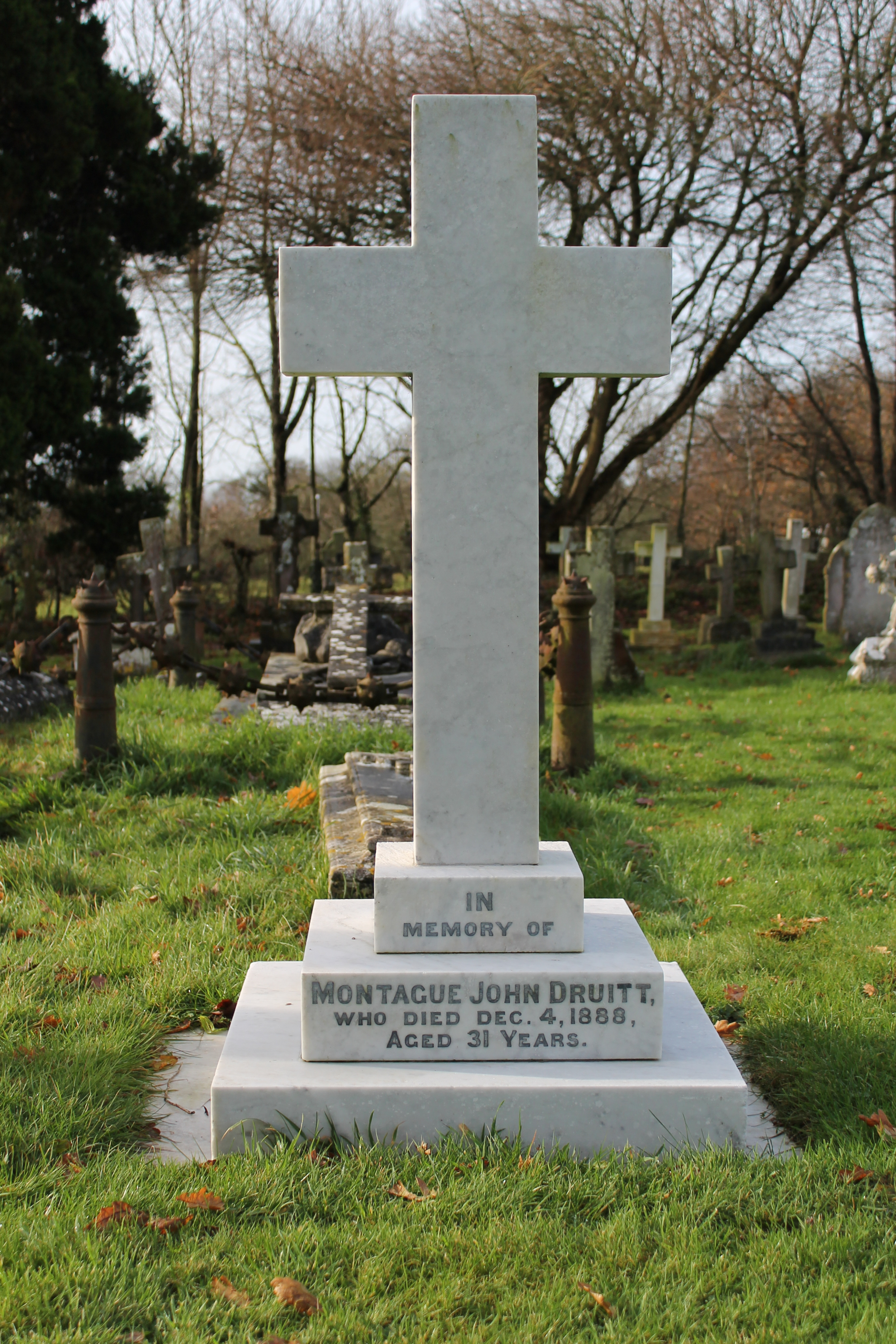 A memorial to Montague John Druitt at Wimborne Cemetery, Wimborne, Dorset. Montague John Druitt was a suspect in Jack the Ripper case, though is dismissed by many investigators.